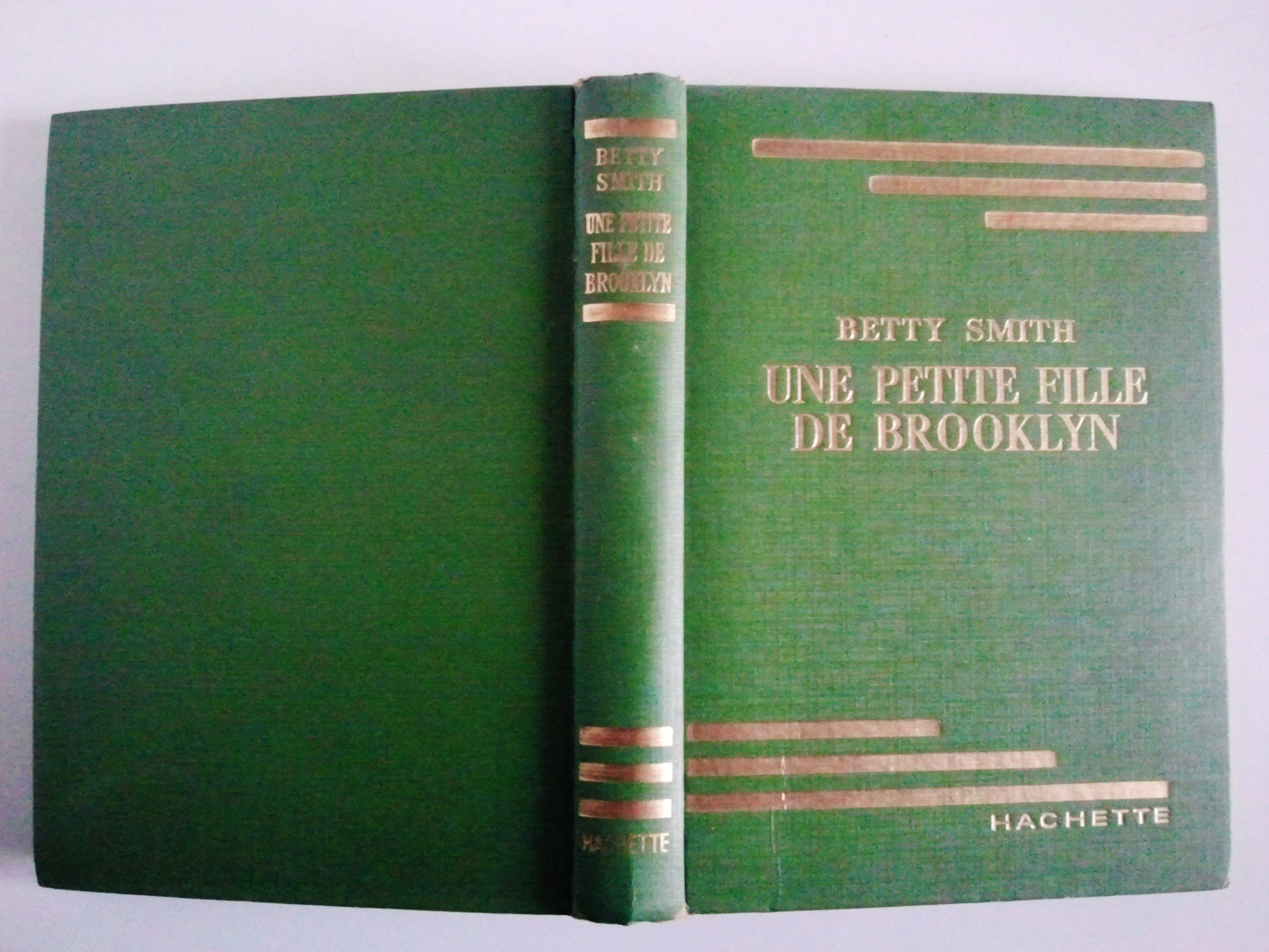 Un exemplaire de 1925 de la Bibliothèque Verte